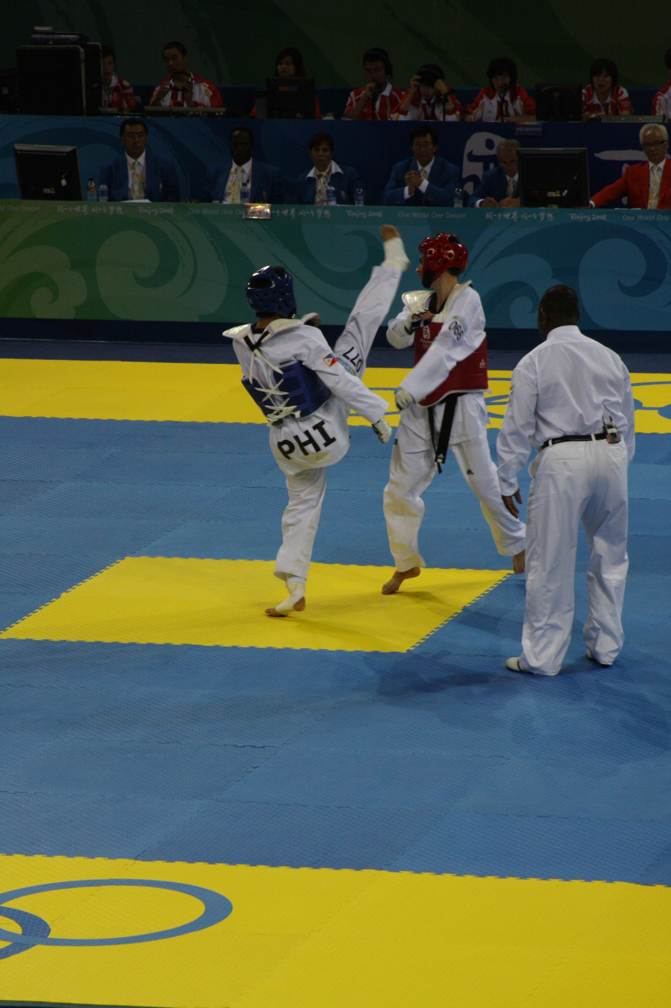 2008 Summer Olympics Taekwondo - Tshomlee Go (PHI, blue) v. Ryan Carneli (AUS, red)